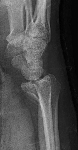 Lateral projectional radiography of the right wrist of a 33 year old man, showing a palmar Barton's fracture.